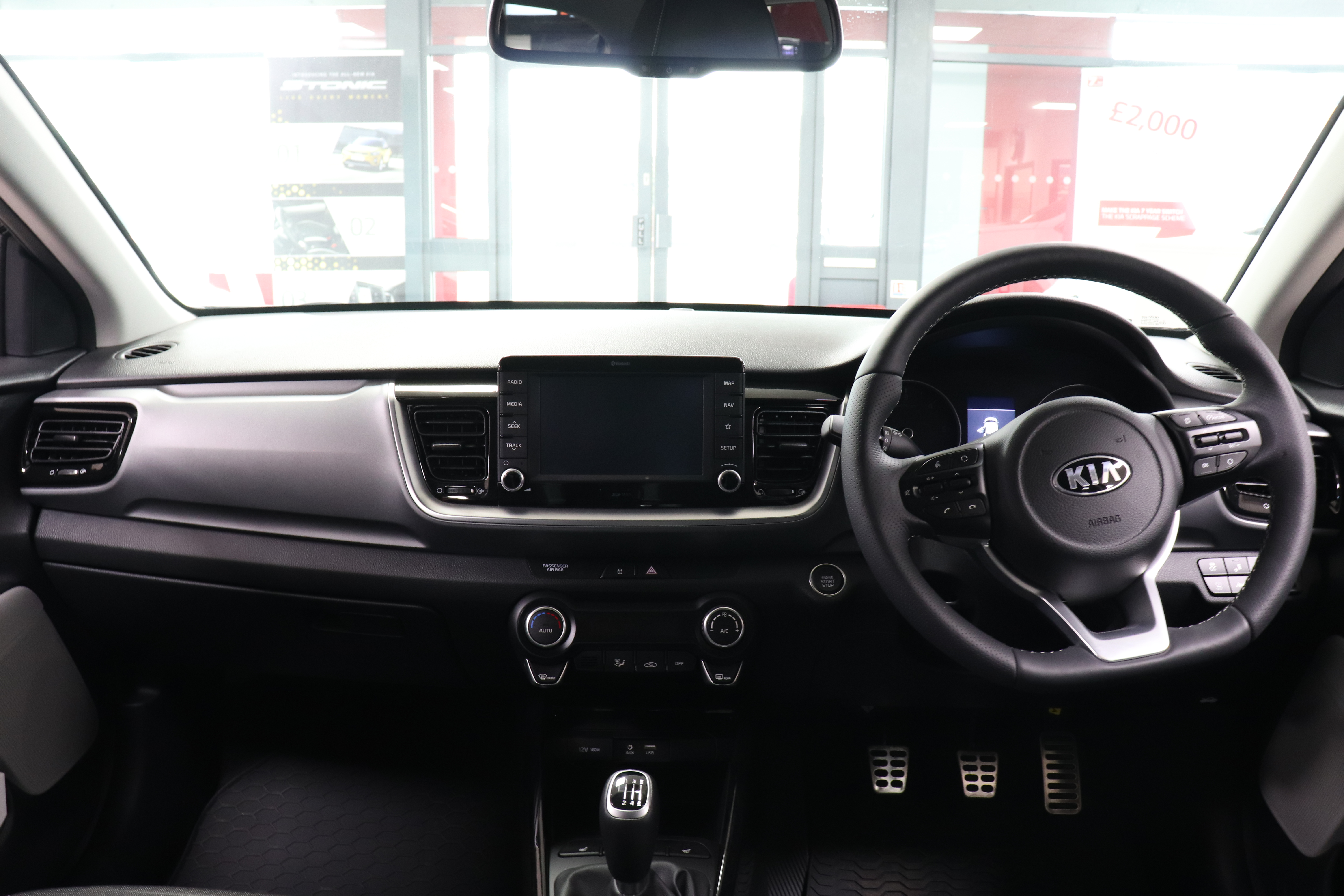 2017 Kia Stonic Interior Taken in Warwick